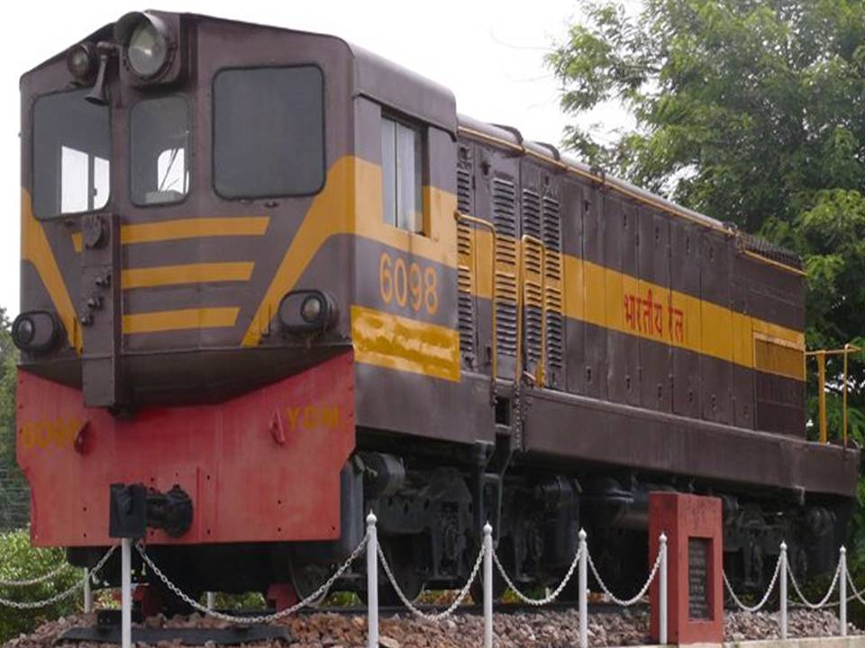 Photo taken from IRFCA.